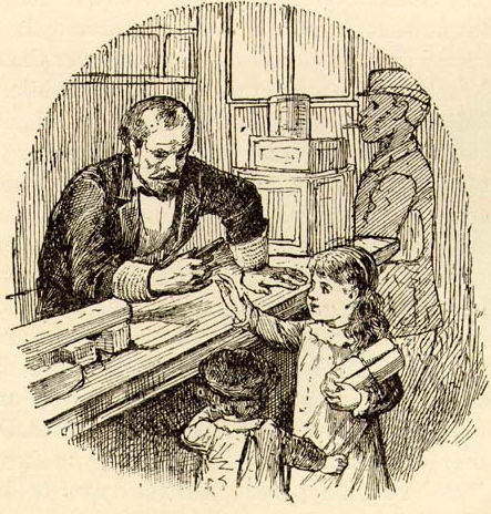 Children at shop in New Orleans in the late 19th century.